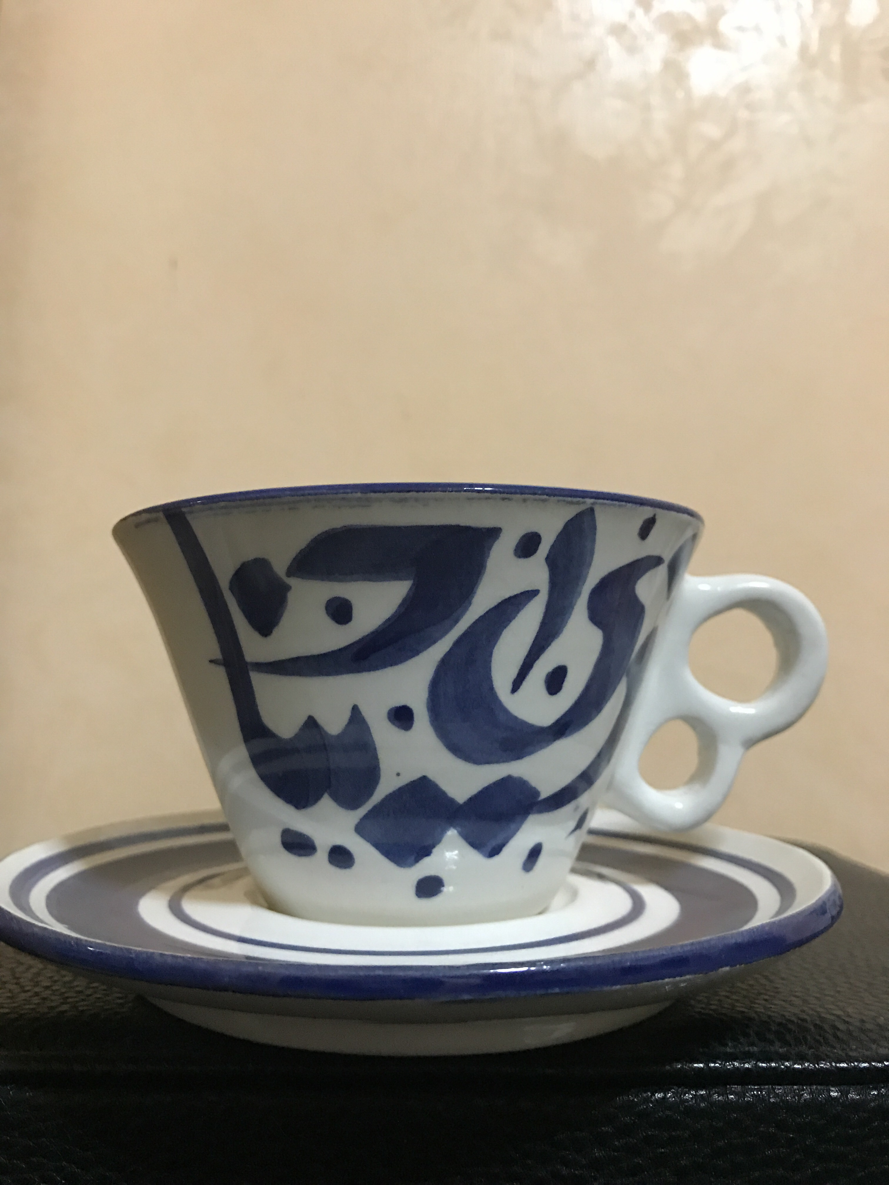 Tea cup with Arabic Calligraphy فنجان شاي مزيّن بالخط العربي